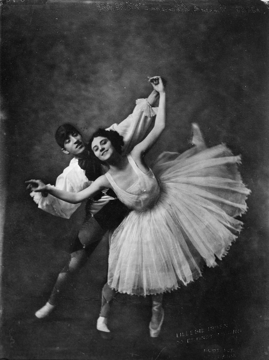 English-italian ballet dancer Ernest(o) Marini (–1967) and norwegian ballerina Lillebil Ibsen (1899–1989) in Prima Ballerina, the first production at Mayol-teatret in Oslo (early 1921).